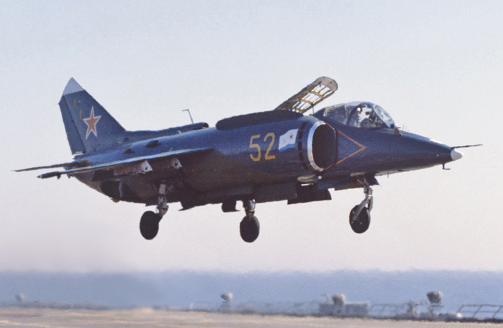 «Истребитель Як-38». Истребители Як-38 тяжелого авианесущего крейсера "Новороссийск", входящего в состав Краснознаменного Тихоокеанского флота. Россия